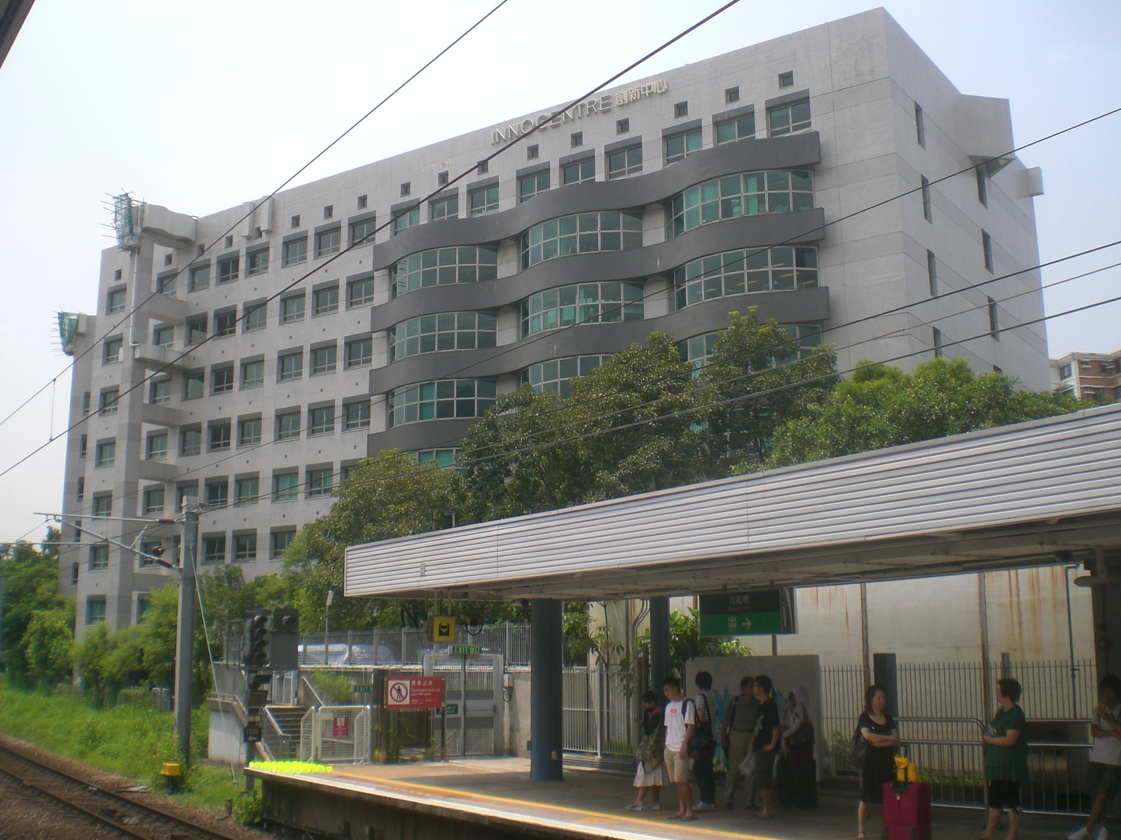 九龍塘站zh:月台外望 創新中心